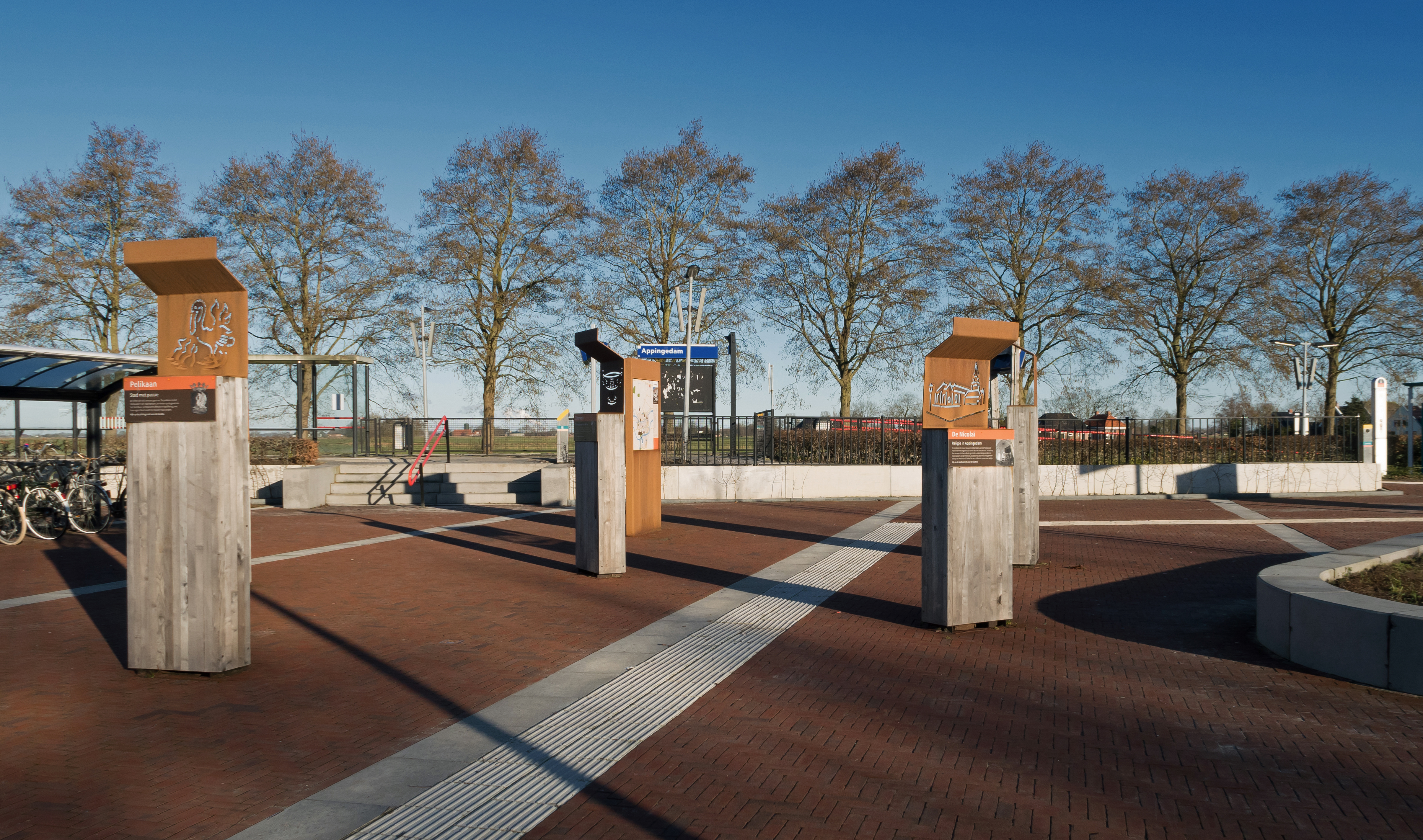 Appingedam, square for railway station Appingedam